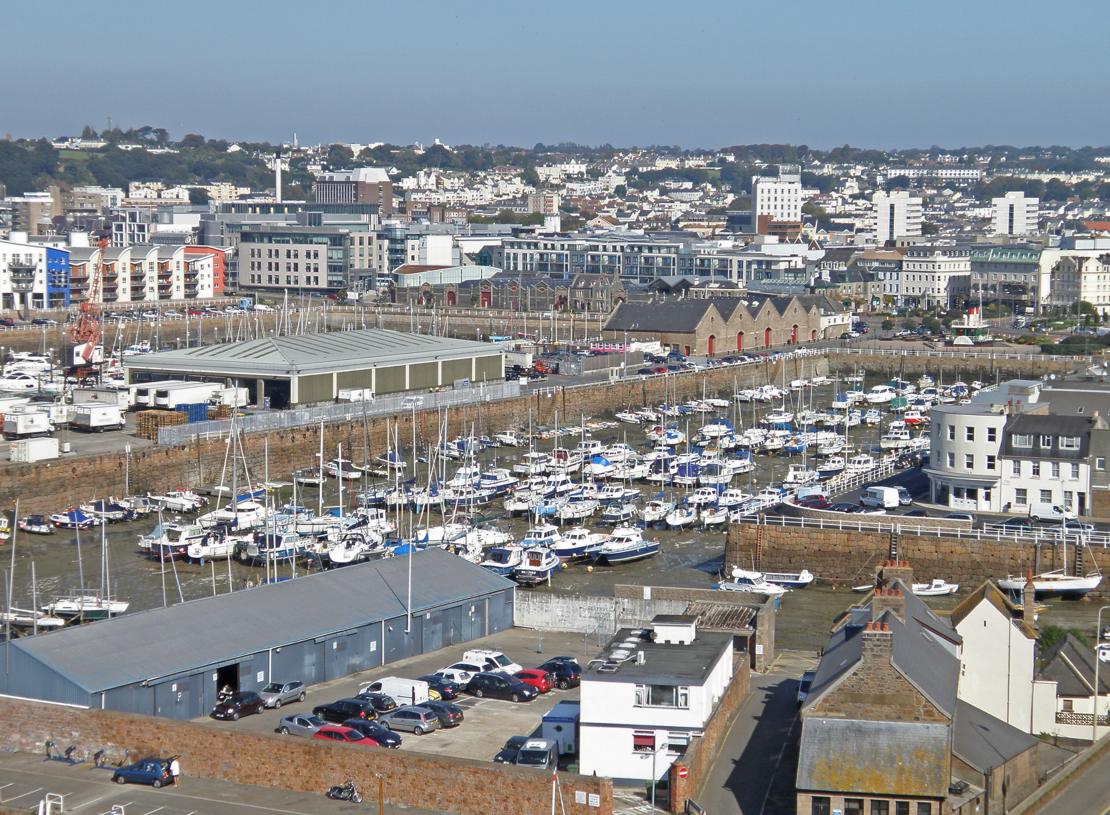 Views from the Mount South Hill Park. Harbour Views.